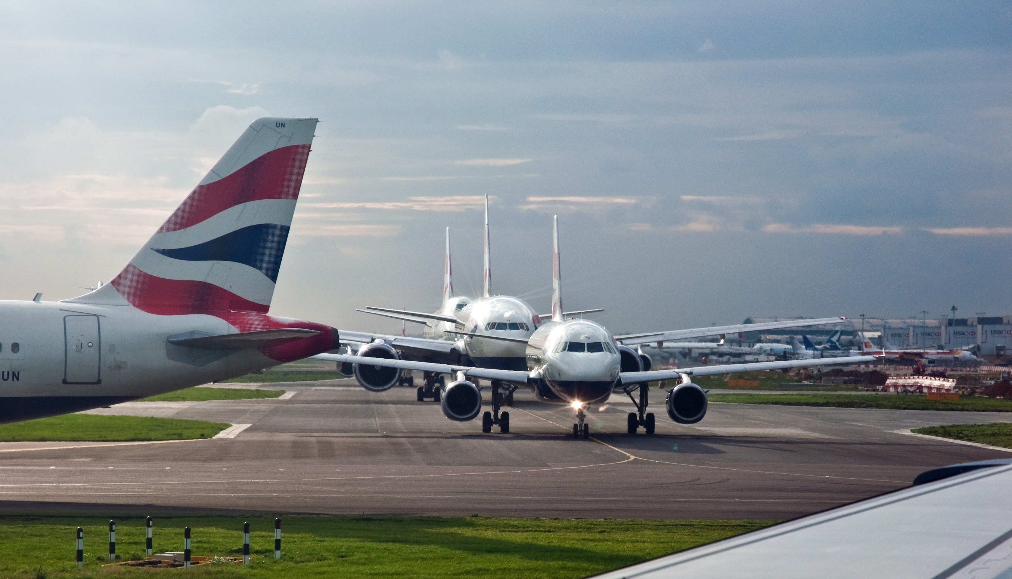 Departing for Glasgow on a BMI A320